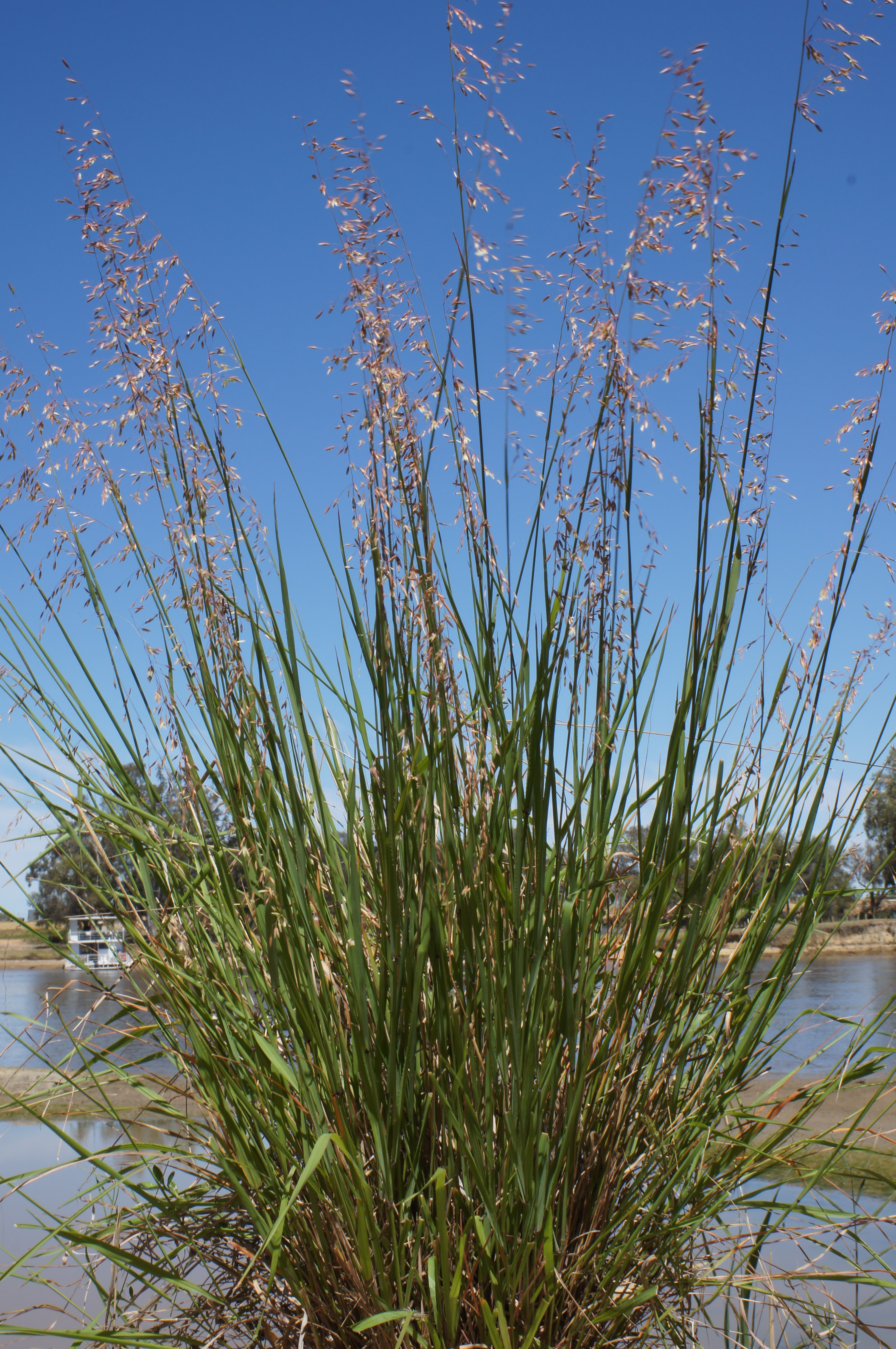 Introduced, yearlong-green, perennial, erect, tufted, slender grass to 70 cm tall; stolons are rare. Leaves are dull or blue-green, often tinged purple. A native of South Africa, it is an uncommon weed found on low fertility, sandy soils in lower rainfall areas on the Tablelands; often in disturbed bushland, naturally open vegetation and on roadsides. Moderately useful pasture species on light soils of low fertility and rainfall between 330 and 760 mm further west. Has moderate frost tolerance, with main production in spring and early summer. Requires rotational grazing to persist. Seeds prolifically and can be a minor weed of sandstone and granite bushland areas.